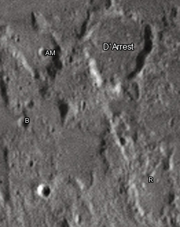 D'Arrest lunar crater as seen from Earth with satellite craters labeled